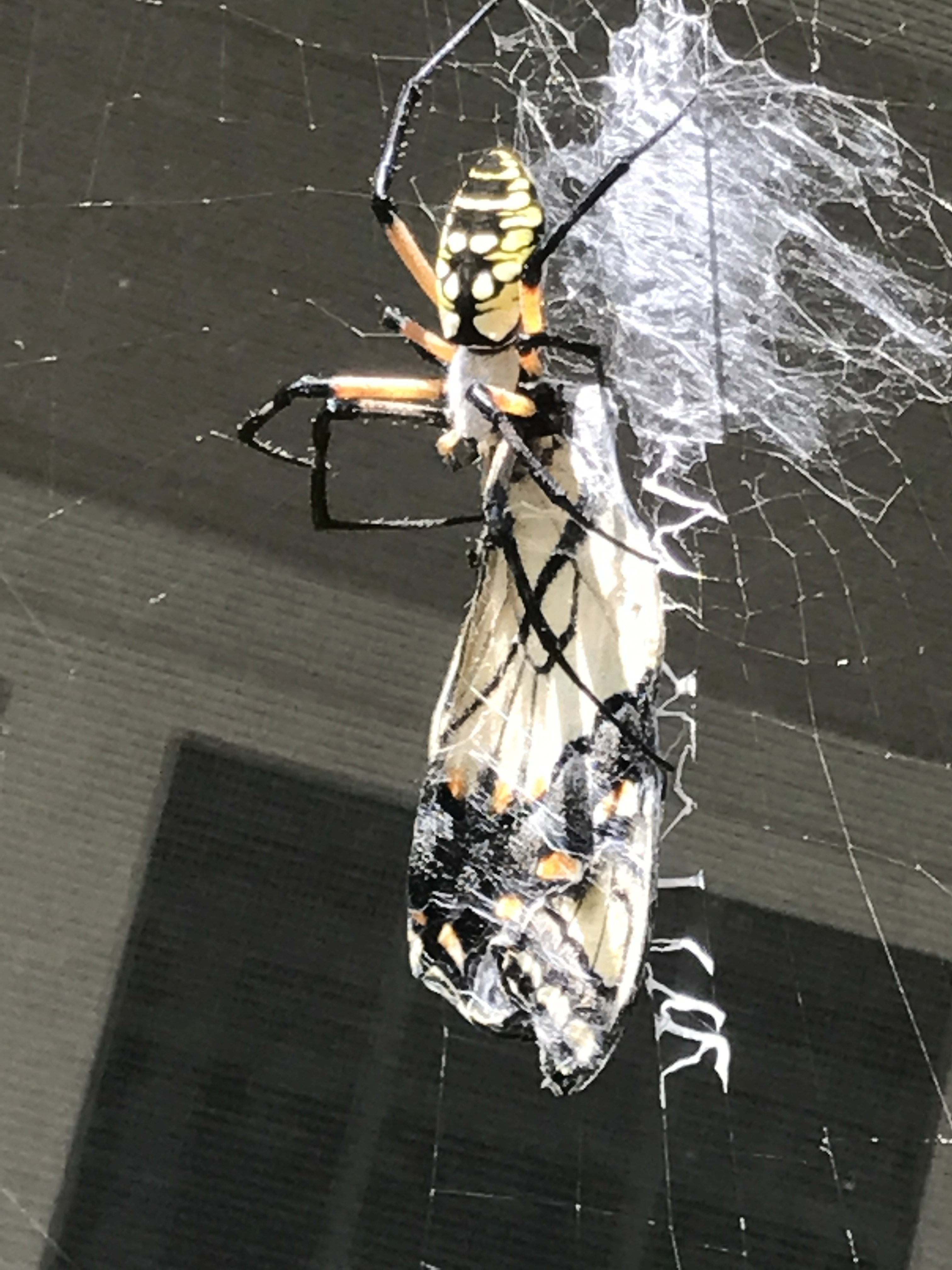 Here is a photo I took of an Argiope aurantia spider commonly known as a "black and yellow garden spider, zipper spider, corn spider, or writing spider, because of the similarity of the web stabilimenta to writing. This is one of three I have in my garden. This one caught a butterfly in its web.